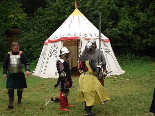 A scene from a Pas d'armes event of the SCA in Germany.